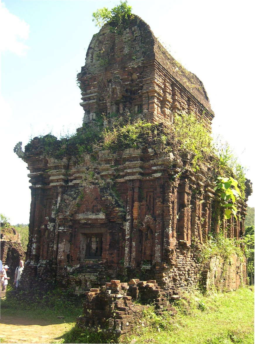 My Son Ruins, near Hoi An, Vietnam